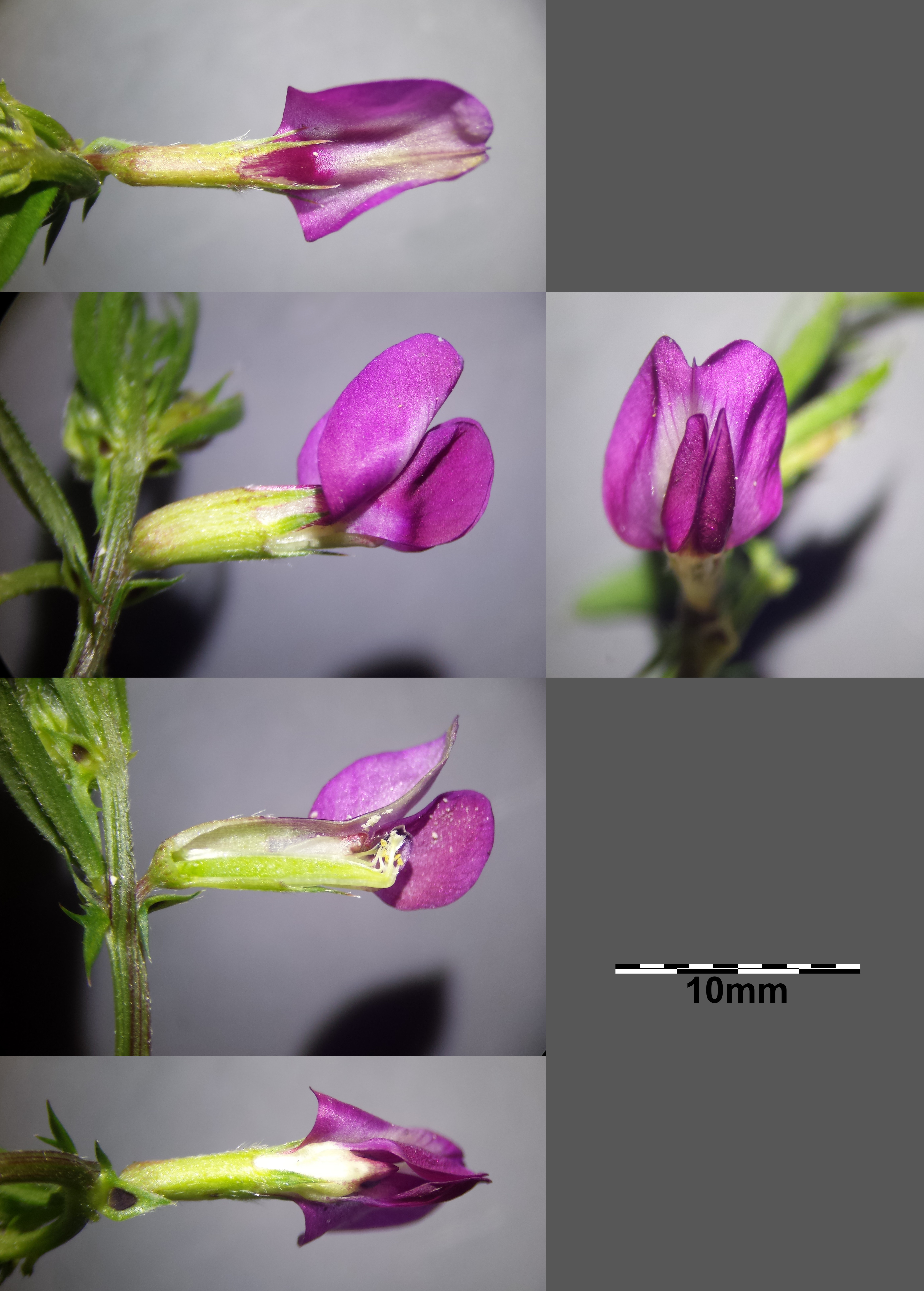 Inflorescence Taxonym: Vicia angustifolia subsp. segetalis ss Fischer et al. EfÖLS 2008 ISBN 978-3-85474-187-9 Location: Neue Donau, Vienna-Floridsdorf - ca. 160 m a.s.l. Habitat: dry slope